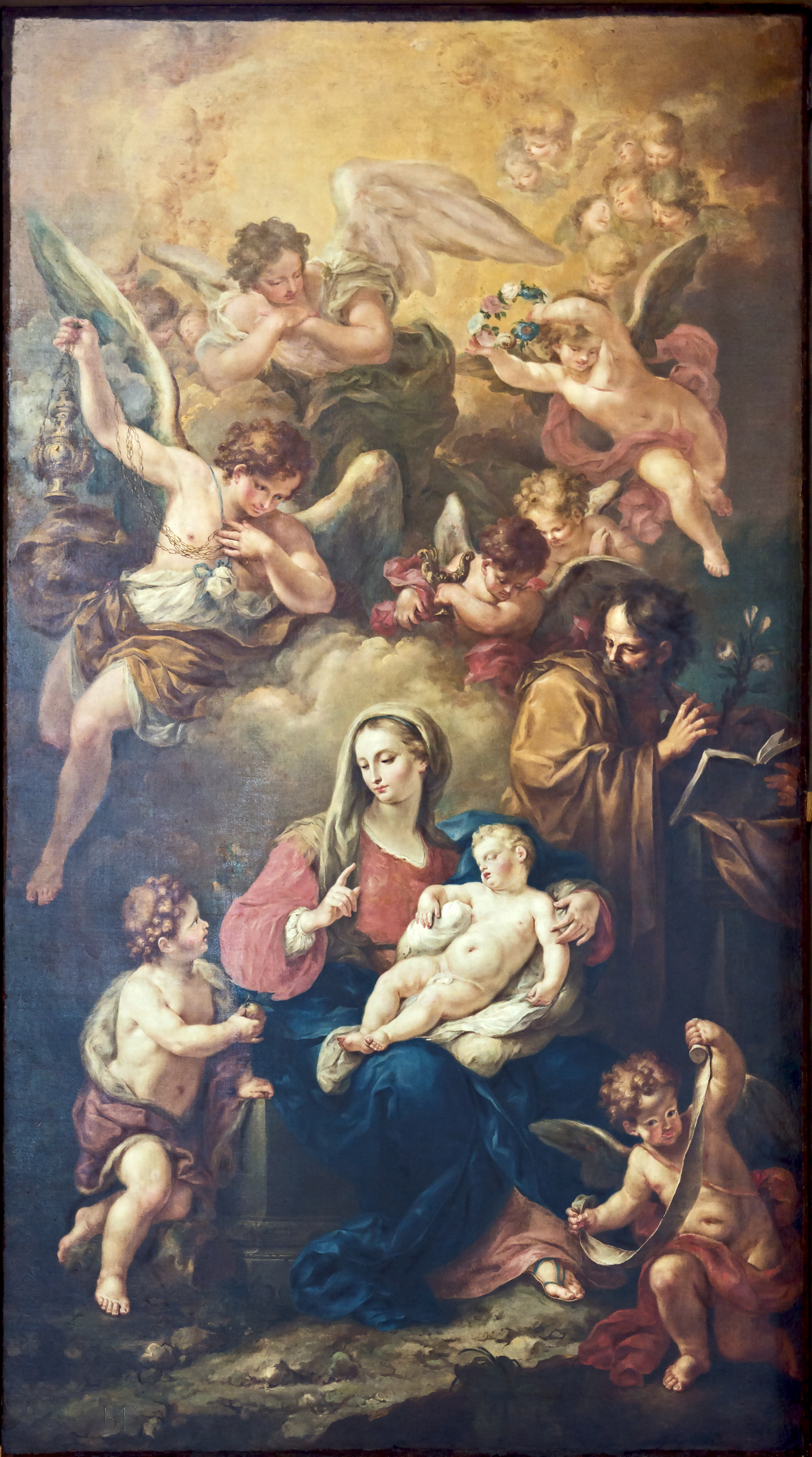 "Holy Family " by Giambattista Mengardi San Geremia, Venice - the left side, the first altar